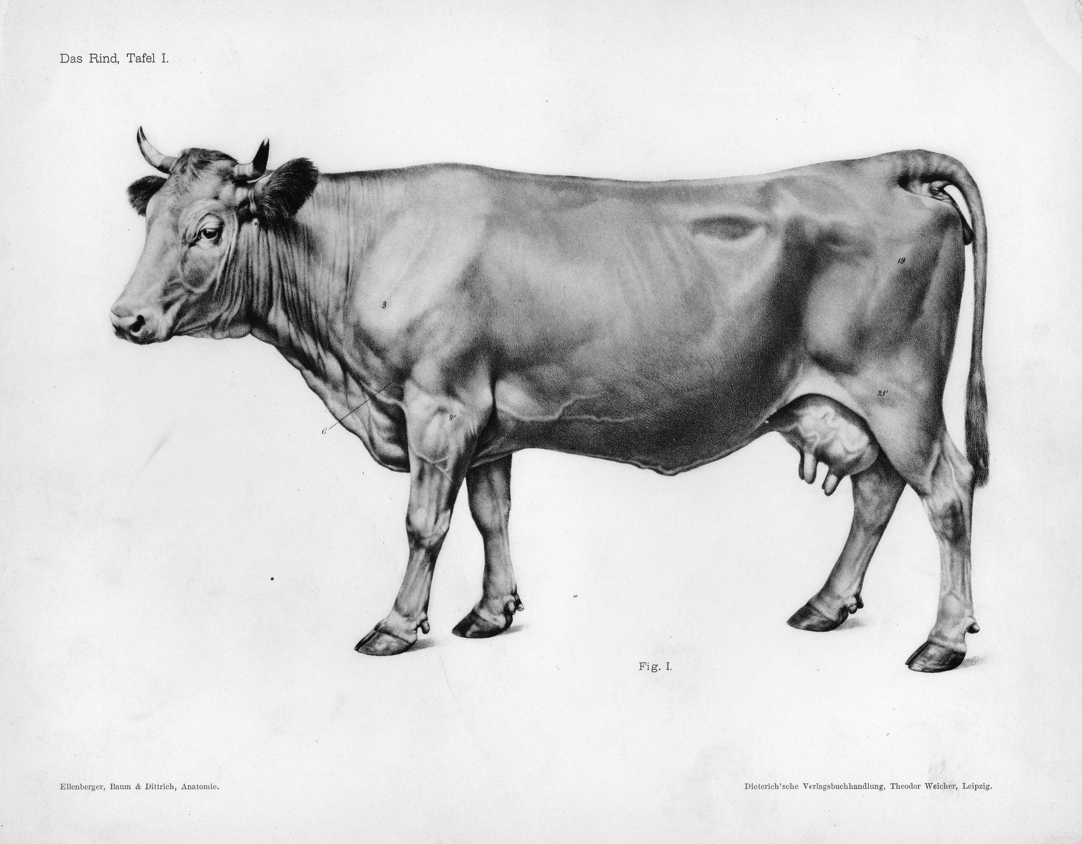 Das Rind, Tafel I [Cattle, Plate 1]. Animal anatomical engraving from Handbuch der Anatomie der Tiere für Künstler. Band 2: Das Rind. This is a lateral view of the integumentary and musculoskeletal systems of the entire left side of a cow, highlighting palpable landmarks.